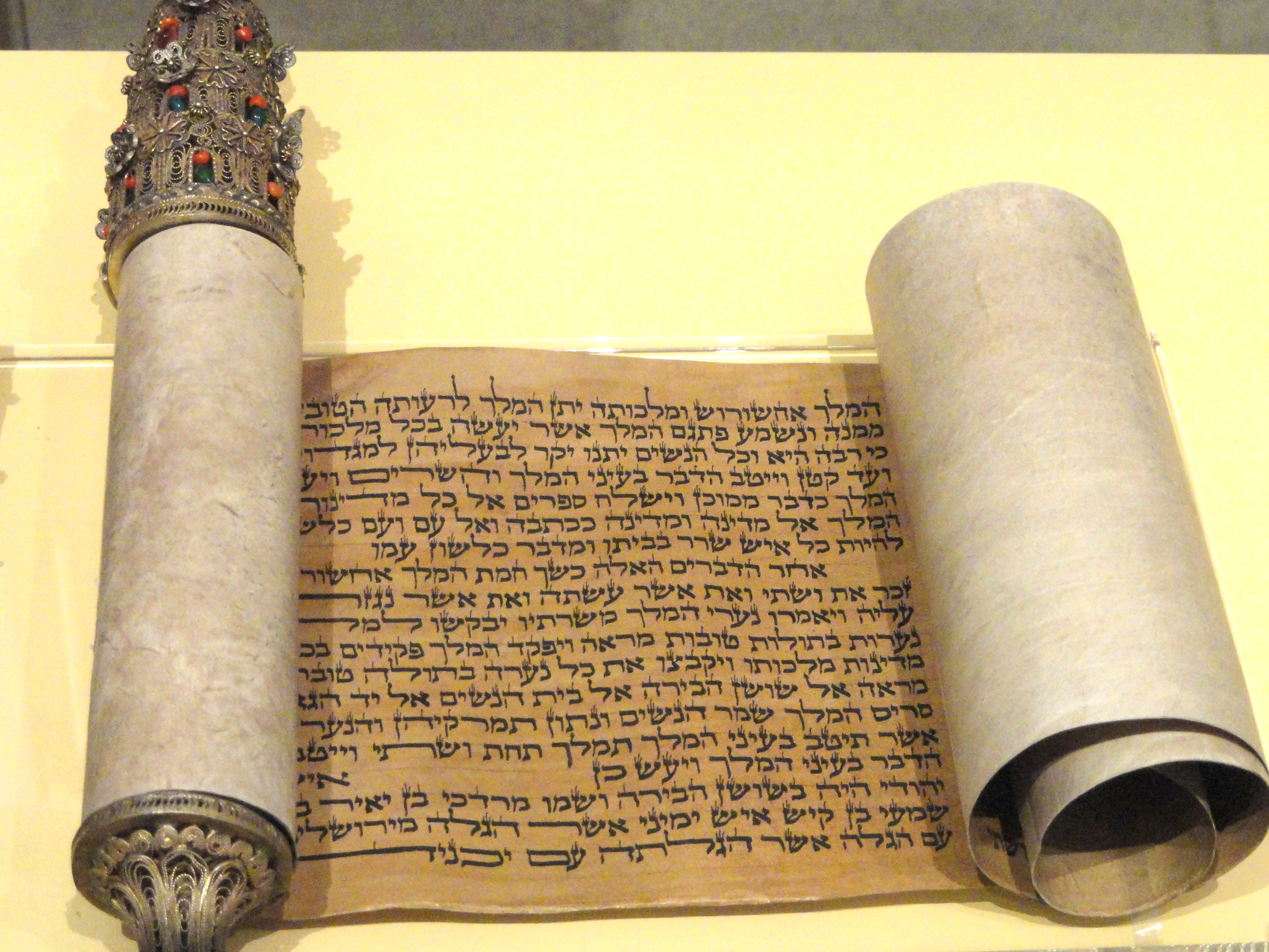 Exhibit in the Royal Ontario Museum, Toronto, Ontario, Canada. This exhibit is old enough so that it is in the public domain, and photography was permitted in the museum. I took this photograph and release it into the public domain.